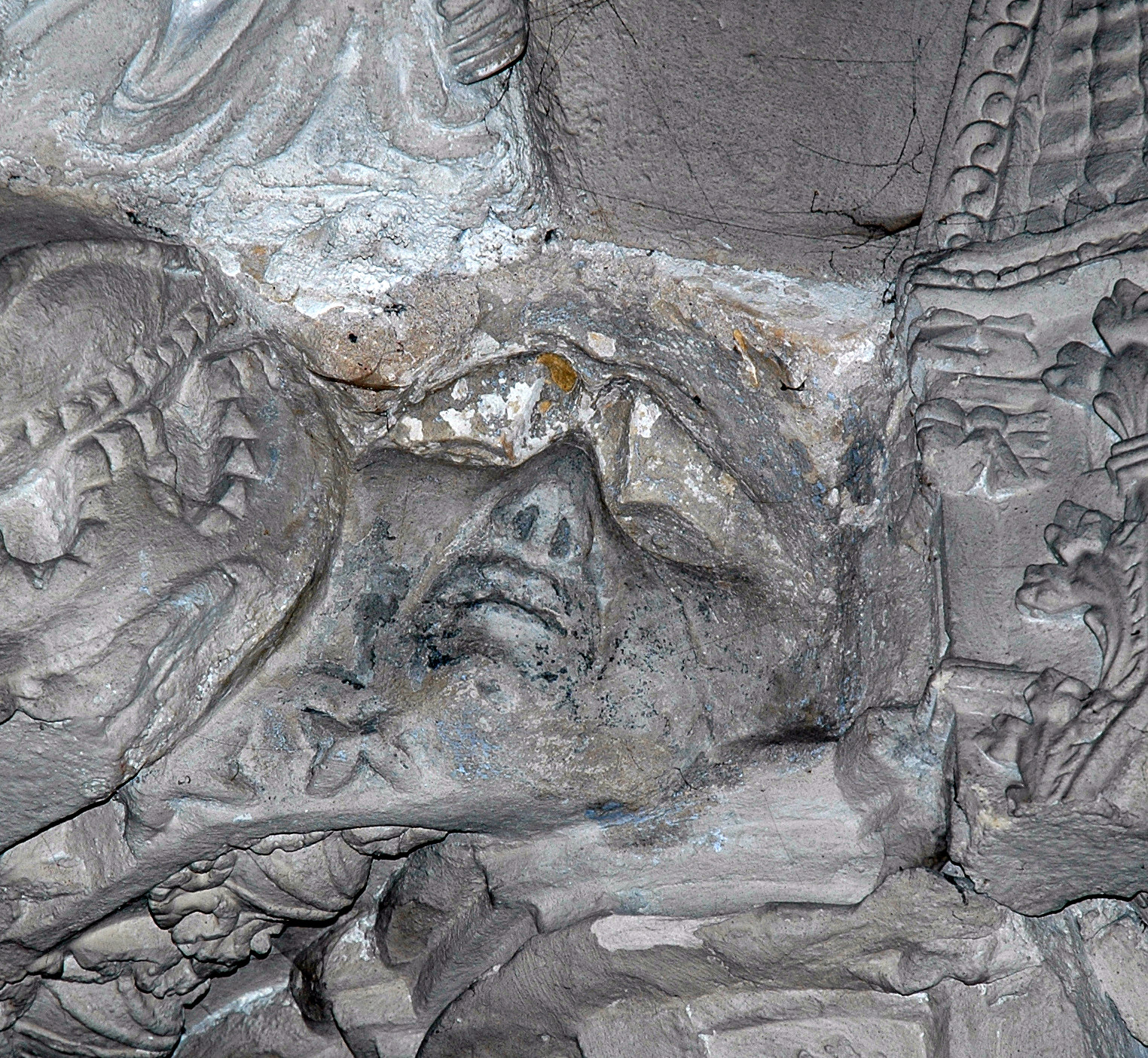 Robert Bruce's alleged death mask, Rosslyn chapel, Edinburgh